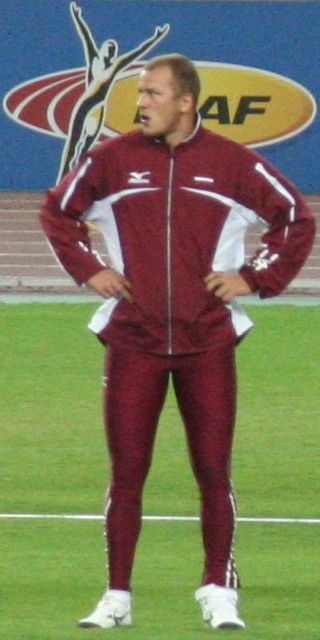 World Athletics Championships 2007 in Osaka - participants in the final of the men's Javelin competition